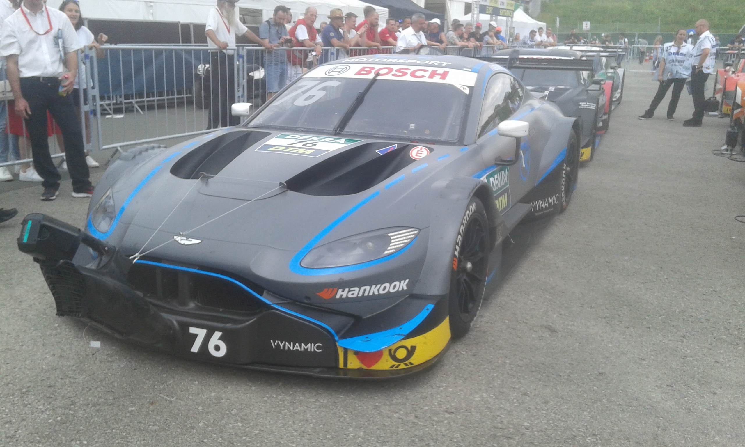 DTM parc fermé at the 2019 Norisring Speedweekend